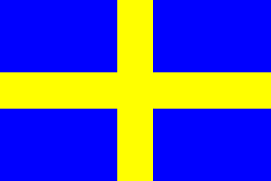 Flag of this French municipality